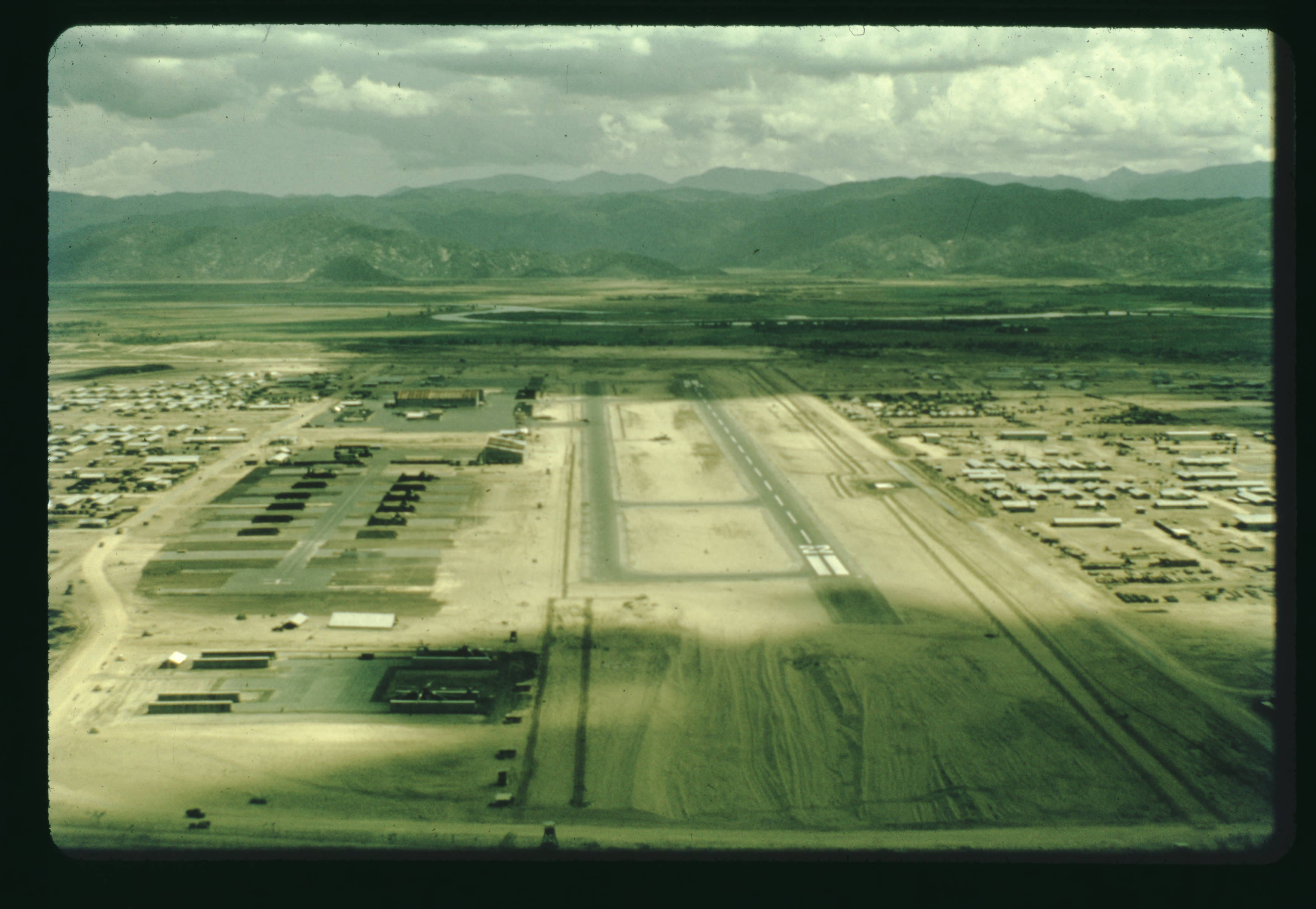 Phu Hiep Army Airfield aircraft support facilities constructed by the 577th Engineer Battalion